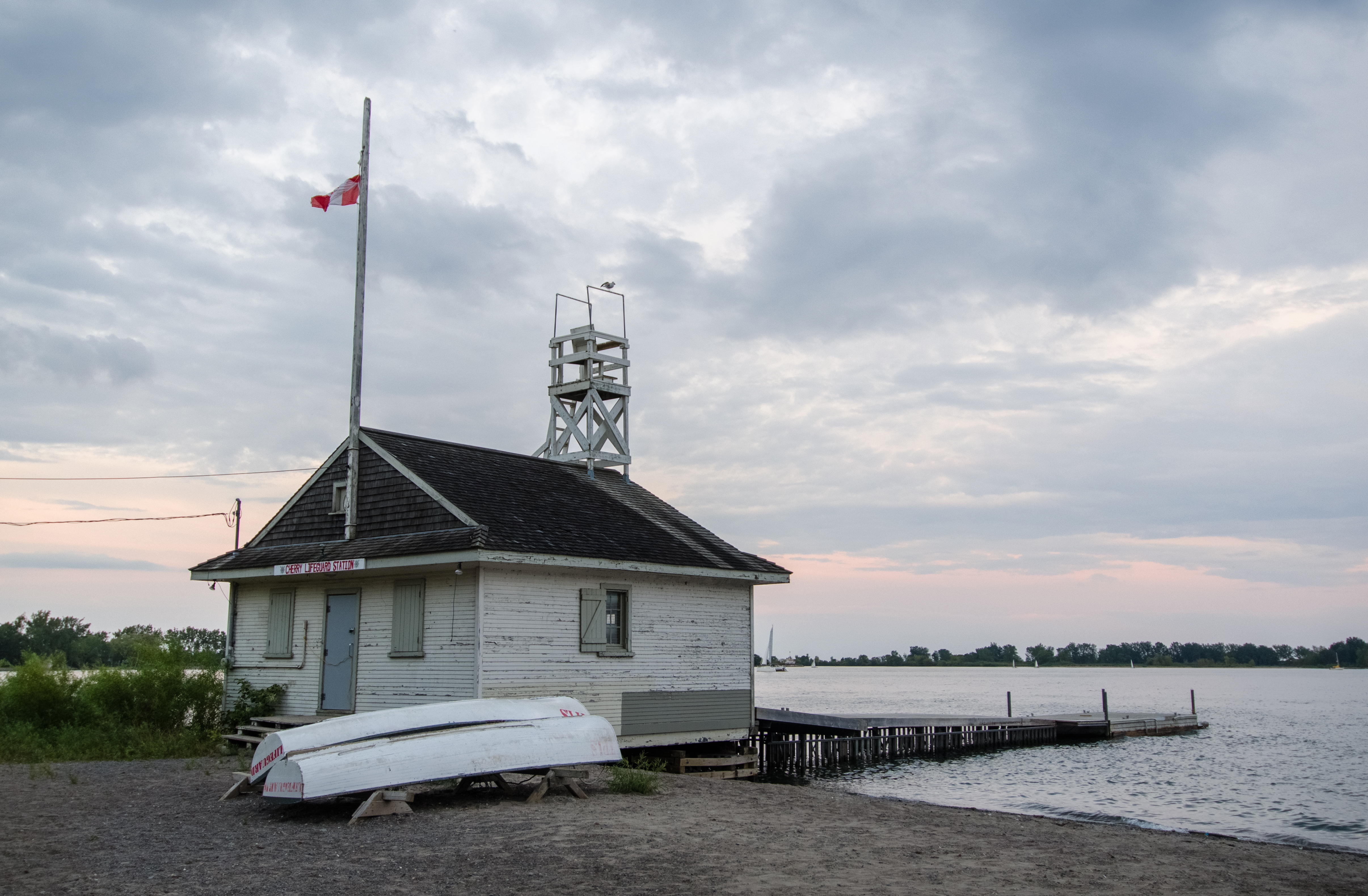 Seen in Orphan Black, Wonderfalls, That's My DJ, and more.